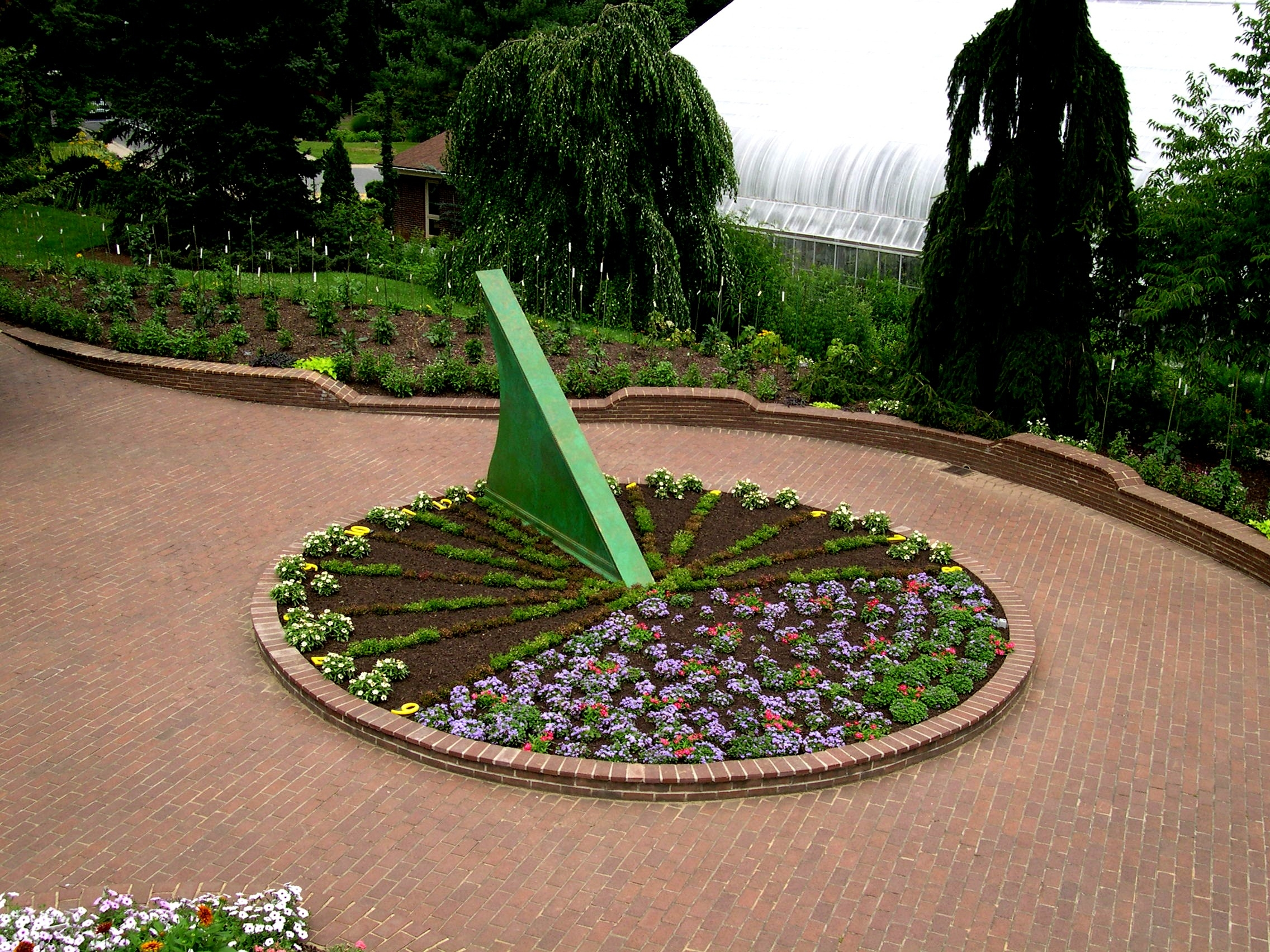 This is a living plant horizontal monumental sundial by sundial maker and designer, John Carmichael at Sundial Sculptures. It is located at the Maryland Botanical Gardens.